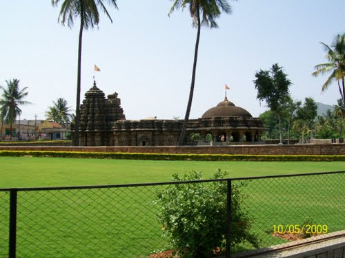 Kattameshvara and Chandramoulishvara Temple, Shivalaya, Arsikere